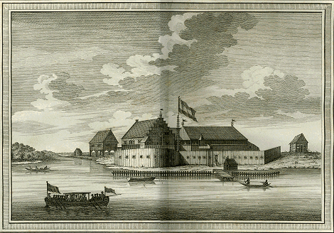 Fort Nassau, capital of the colony of Berbice (now part of Guyana).